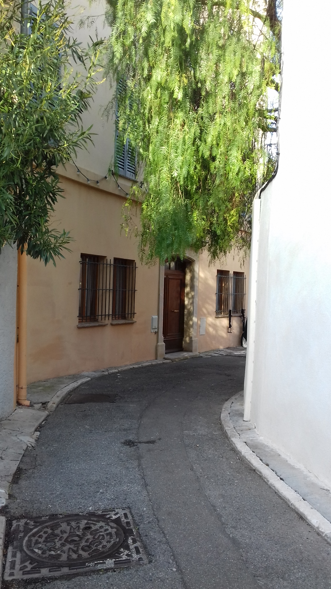 Rue du Migrainier